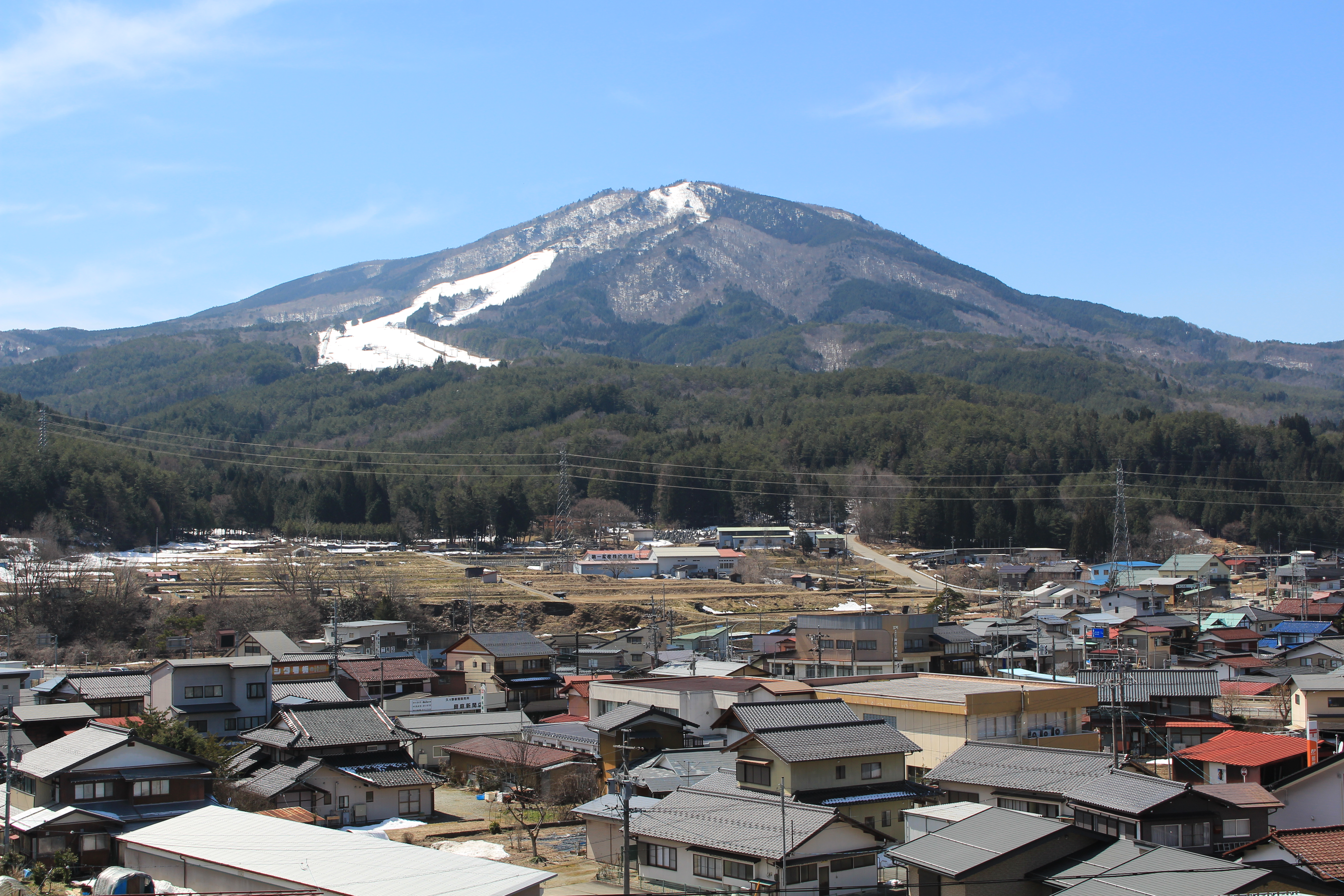 Mount Funa and Hida Funayama Snow Resort Arkopia, in Kuguno, Takayama, Gifu prefecture, Japan.